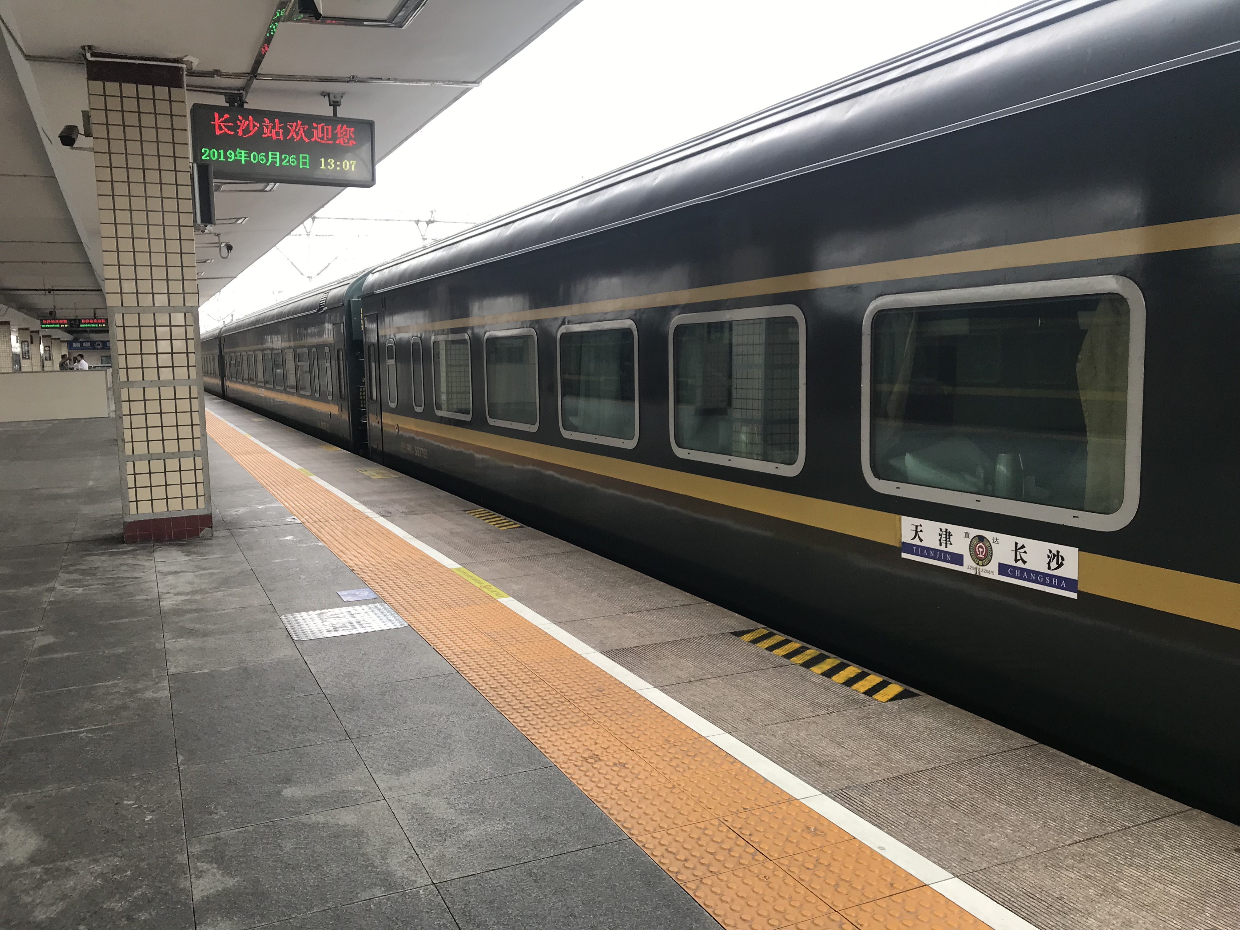 A bonus surprise when I was figuring out the access to Intercity Yard